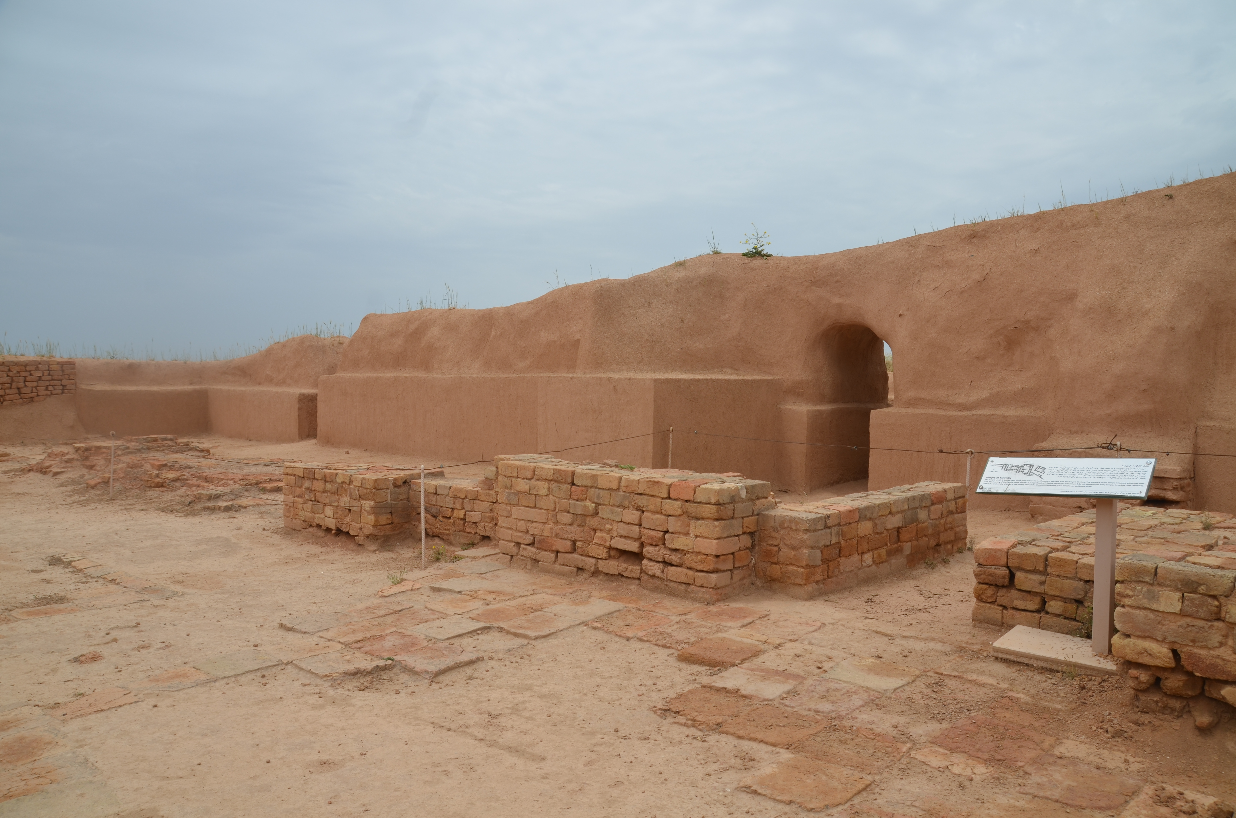 Chogha Zanbil, an ancient Elamite complex founded around 1250 BC by the Elamite king Untash-Napirisha as the religious centre of Elam, Iran